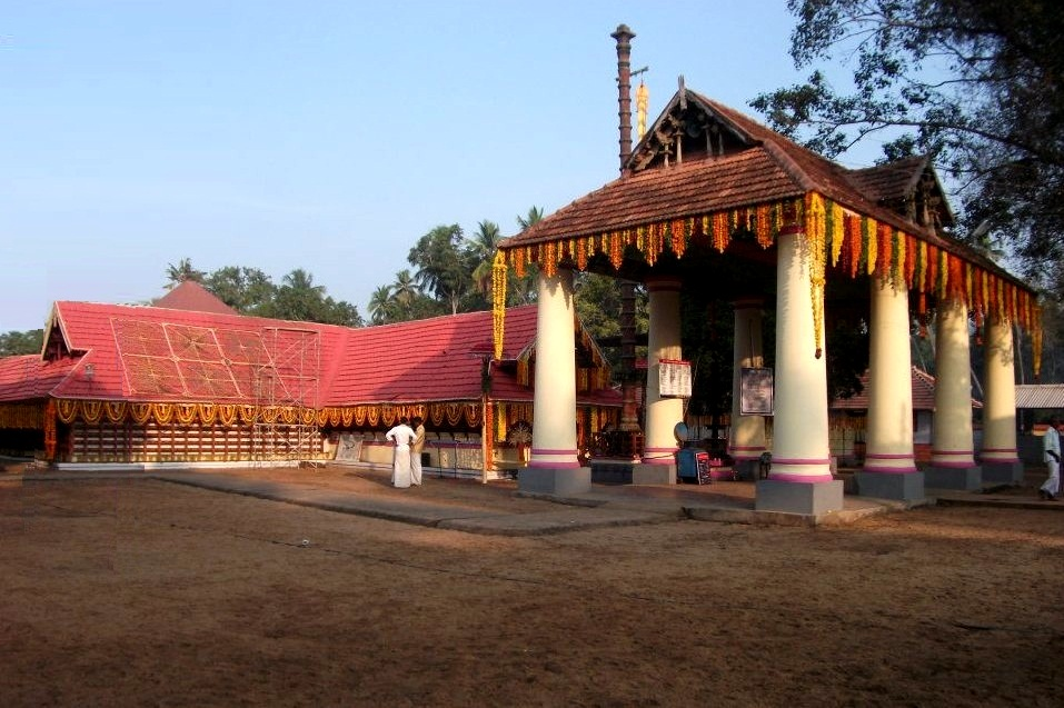 Thiruchattukulam Mahadevar Temple, Cherthala